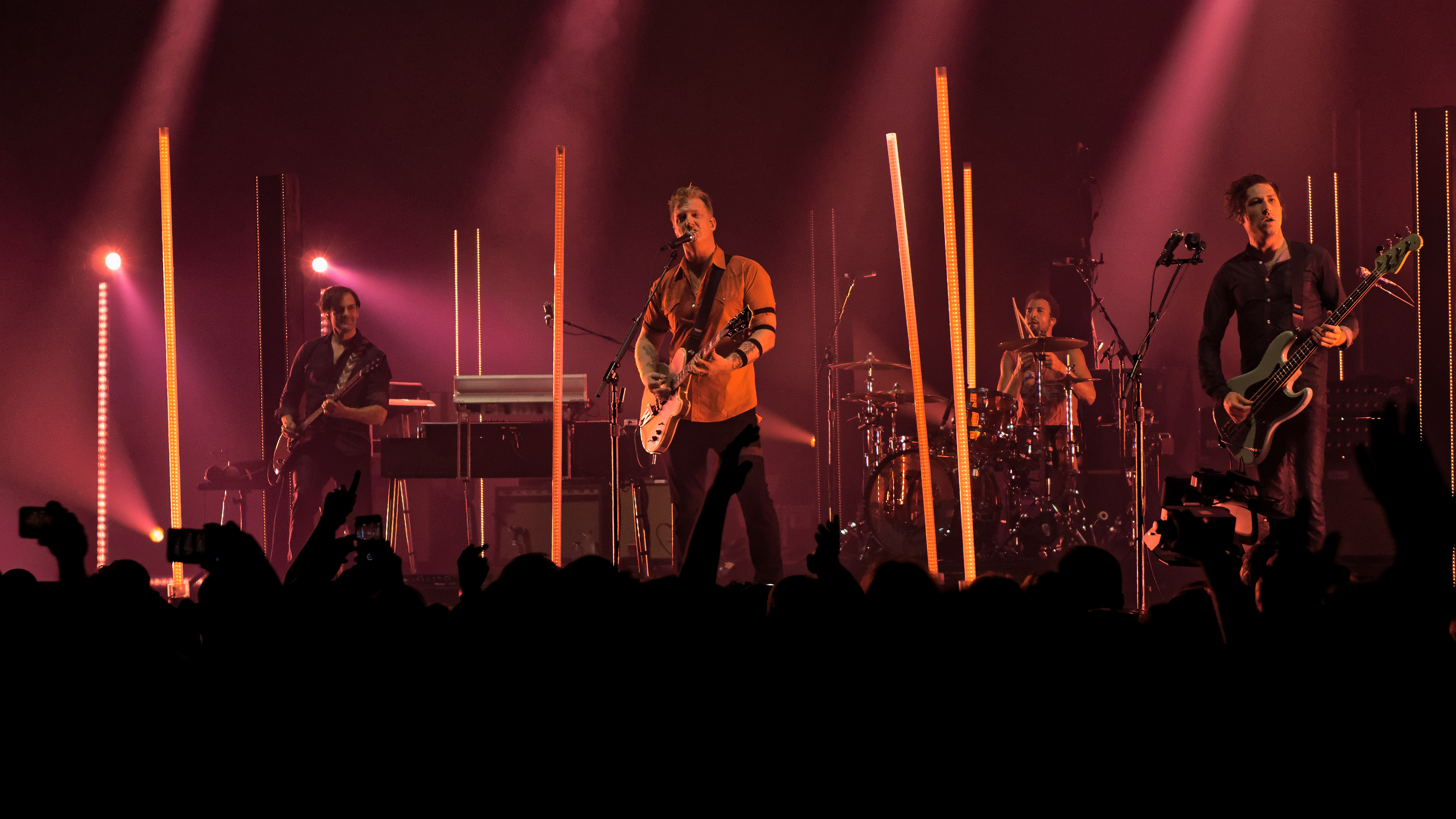 QOTSAWembley181117-29